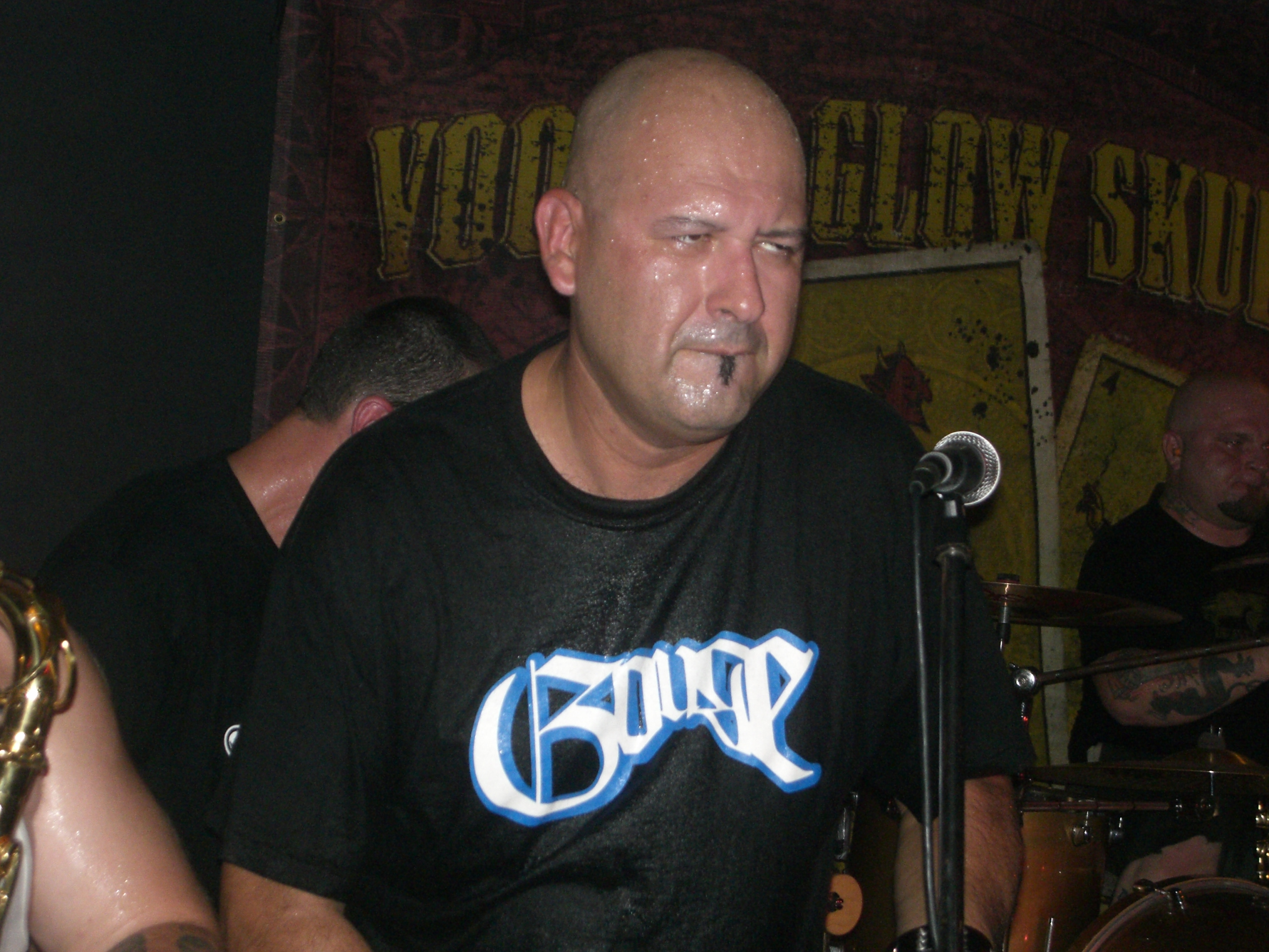 Voodoo Glow Skulls in Metairie, Louisiana